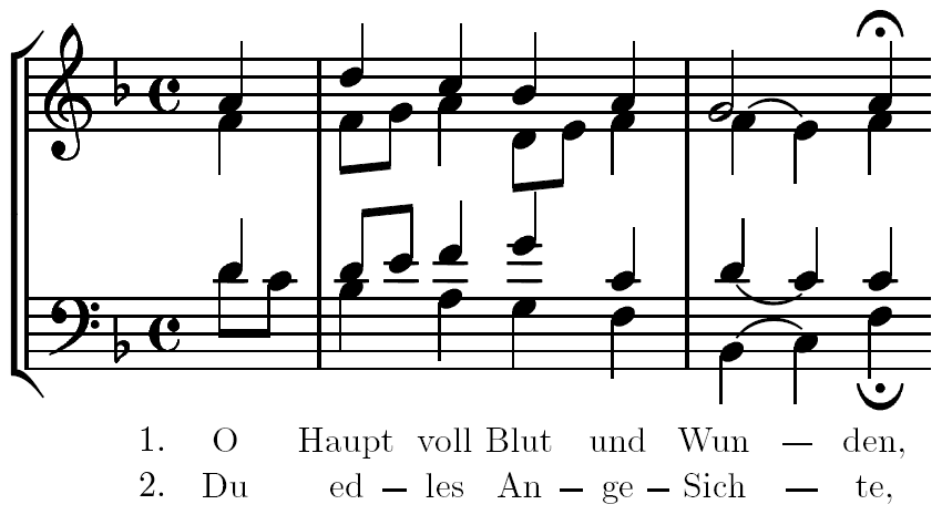 First phrase from 63. Choral O Haupt voll Blut und Wunden from the St. Matthew Passion.